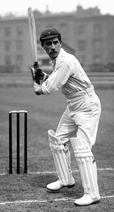 William George Quaife, Warwickshire, circa 1905.